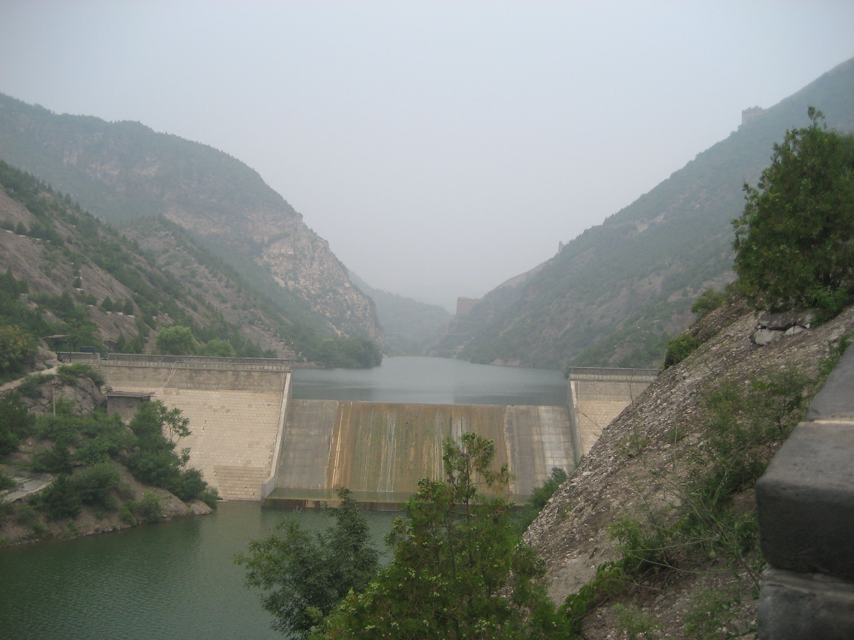 Image of a dam with the great wall in the background. Taken at Simatai near Beijing, China.